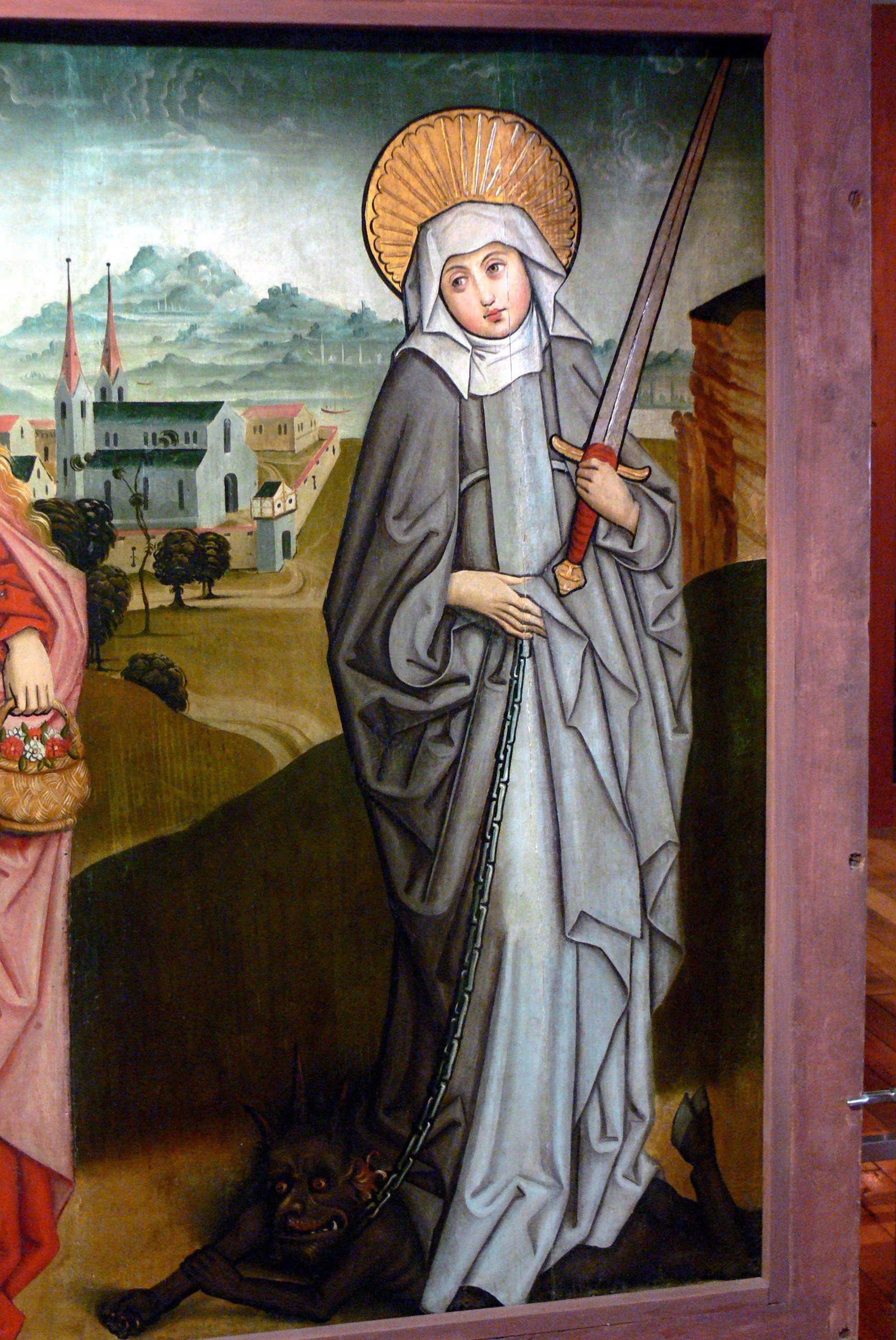 Oberhausmuseum ( Passau ). Painting of Saint Juliana of Nicomedia ( ?; 1460s ).